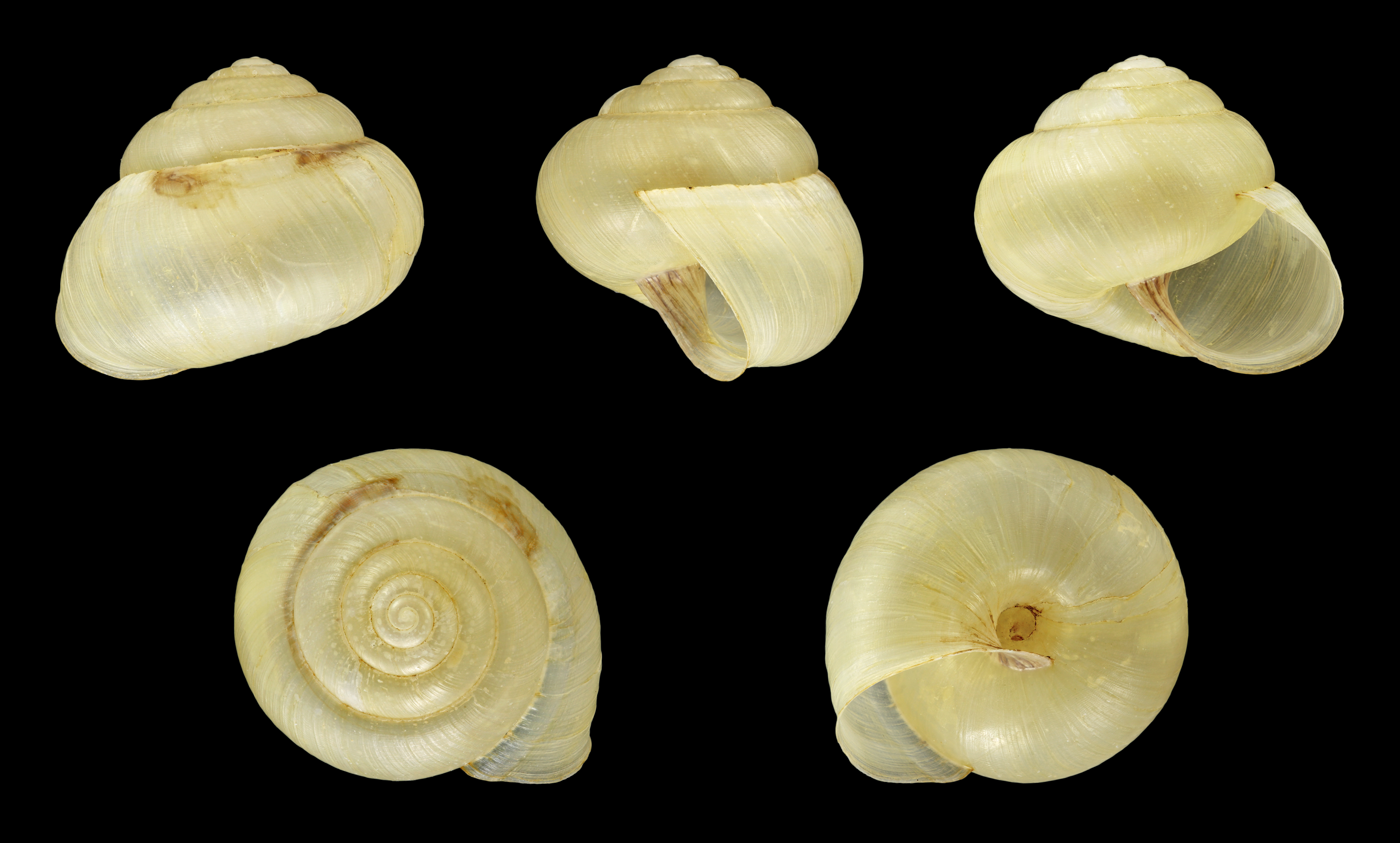 Fruticose Bush Snail; Diameter Length 1.7 cm; Originating from Arta Terme, Province of Undine, Italy; Shell of own collection, therefore not geocoded.